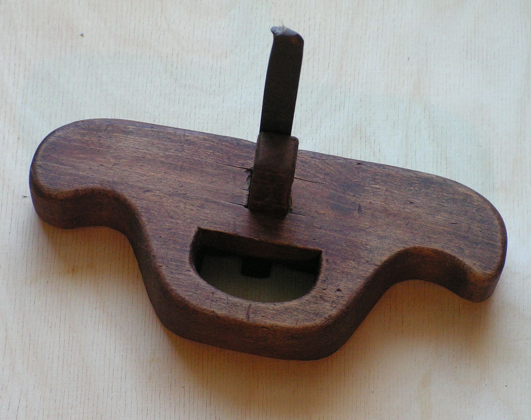 A router plane, which cleans up the bottom of recesses such as shallow mortises and dadoes (housings).